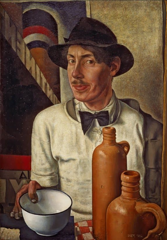 Self-portrait